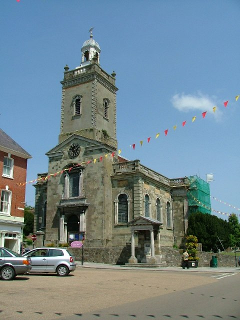 Church of St Peter and St Paul, Blandford Forum. The historic church dominates the shopping centre in this historic Dorset town